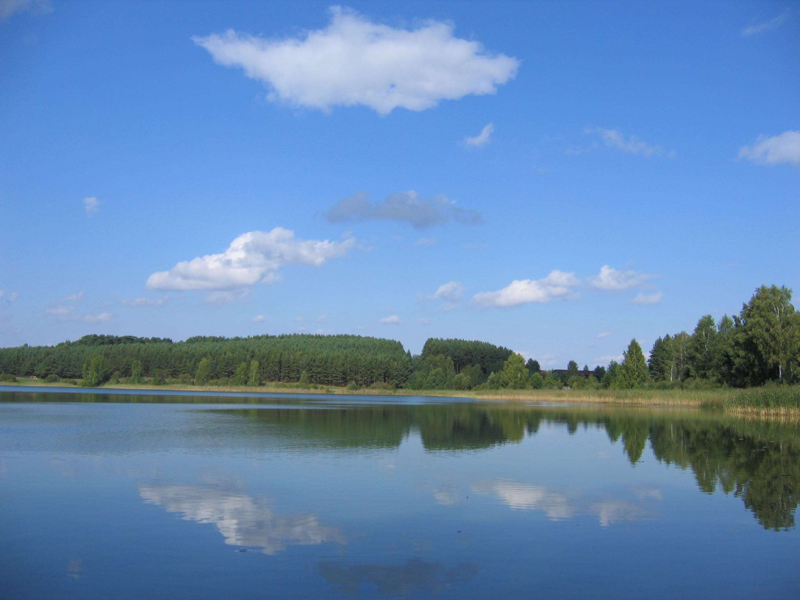 Lake Zbik - one of the most beautiful in Olsztyn.